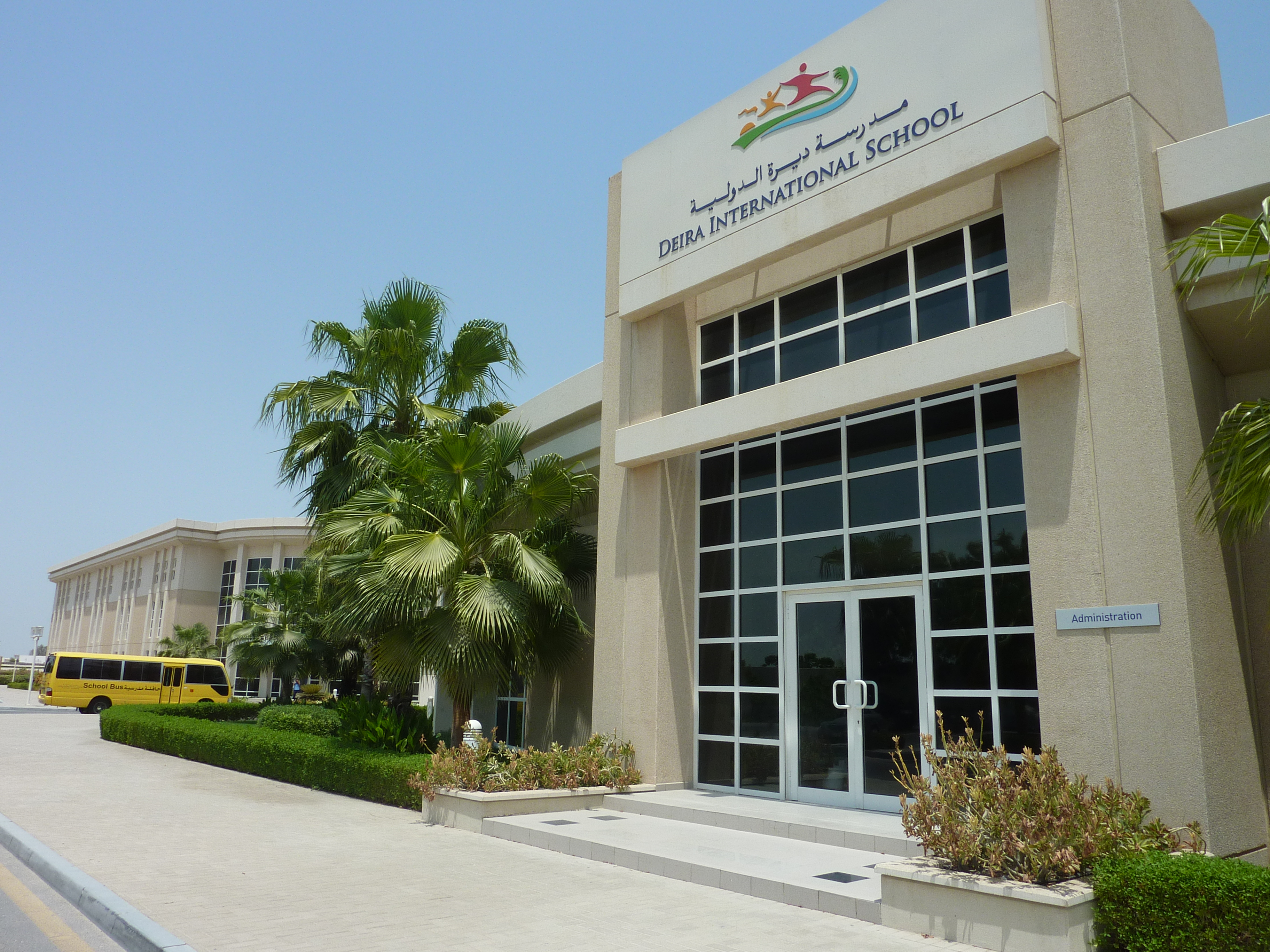 Deira International Scool, Deira